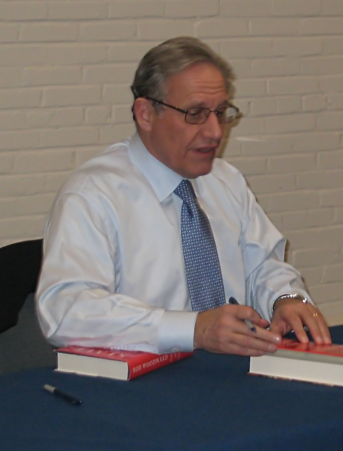 Bob Woodward signs his book State of Denial after speaking at George Mason University's School of Public Policy on 7 March 2007. Photo by Kat Walsh, noise reduction by Kelly Martin.